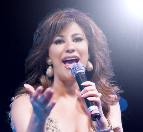 Najwa Karam is a Lebanese singer.